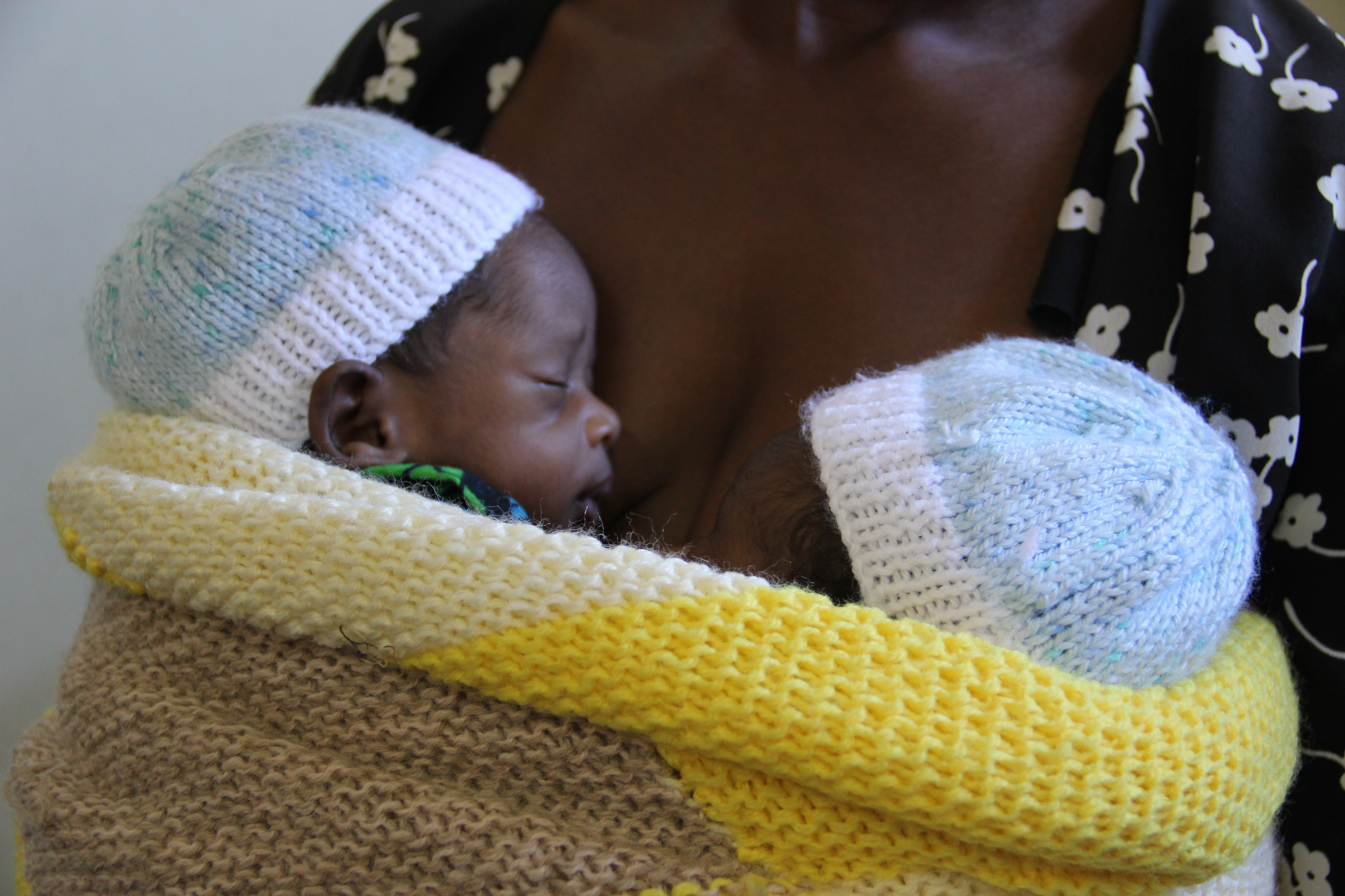 Many babies are born too soon and too small when girls are unable to delay their first pregnancy, and couples can't space their children using modern methods of family planning. Edith’s two twin boys are strapped to their grandmother’s chest in the maternity unit in the Queen Elizabeth hospital in Blantyre, Malawi. This is called “kangaroo care” where mothers hold their premature babies close to their chest. The skin-to-skin contact helps keep the babies warm and improves their survival. Background On 11 July 2012 the UK Government and the Bill & Melinda Gates Foundation will host a groundbreaking summit to cut in half the current number of women and girls in the world’s poorest countries without access to contraception, but who wish to avoid pregnancy or space their children. Find out more at To follow the London Summit on Family Planning visit